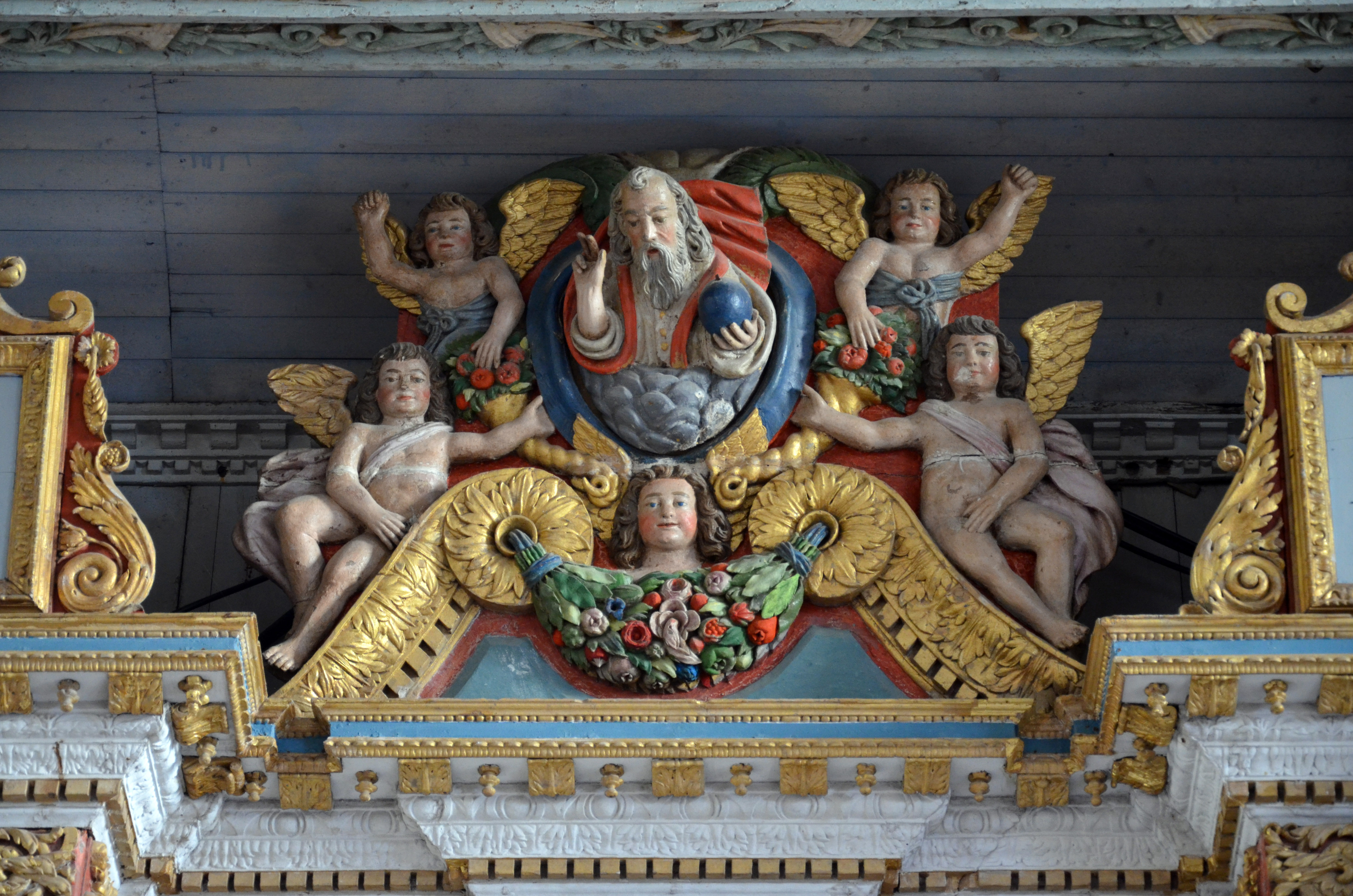 Inside of the church of Saint-Derrien (in common Commana, located in Brittany in western France). The south transept houses the "altar of the Five Wounds." At the bottom of the church, a baptistery basin of stone is topped by a high dai including wood carvings decorated with feminine virtues (temperance, justice ...).